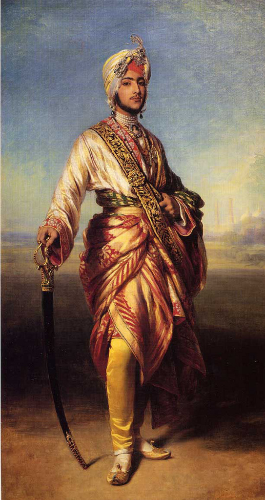 The King Duleep Singh. Commissioned by Queen Victoria, who noted in her journal on 10 July 1854 that "Winterhalter was in ecstasies at the beauty and nobility of bearing of the young Maharaja. He was very amiable and patient, standing so still and giving a sitting of upwards of 2 hrs'". In the portrait, the Maharaja is shown wearing his diamond aigrette and star in his turban and a jewel-framed miniature of Queen Victoria by Emily Eden.